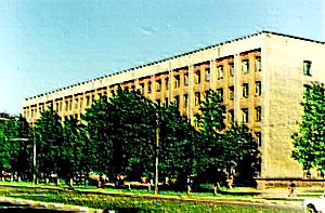 architect building college, mogilev